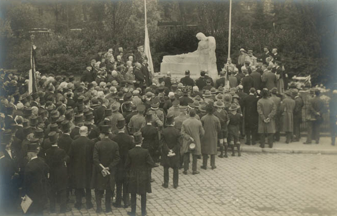 Unveiling of a national memorial for French refugees in the Netherlands during WWI. Of the ca. 5000 refugees more than 450 perished, due to exhaustion and diseases. The memorial was a joint effort of Huib Luns and Charles Vos. The unveiling on 23 May 1926 was attended by Prince Hendrik of the Netherlands, governor Baron Van Hövell tot Westerflier, ministers Waszink and Lambooij, mayor Leopold van Oppen and many other dignitaries. Photo collection: RHCL, Maastricht, ref. nr. 15540.